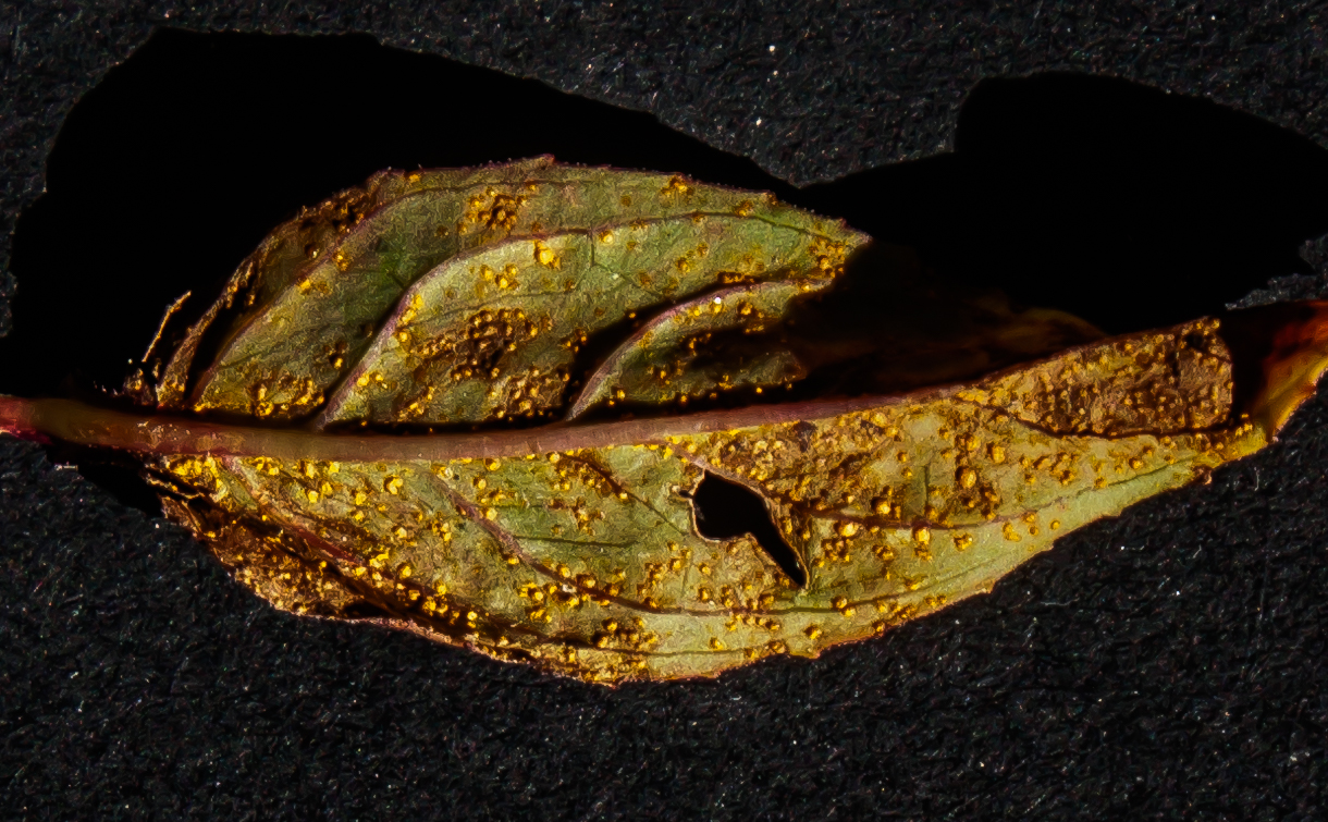 Pucciniastrum epilobii - urediniospores on Epilobium ciliatum, Austria, Styria, Ramsau am Dachstein